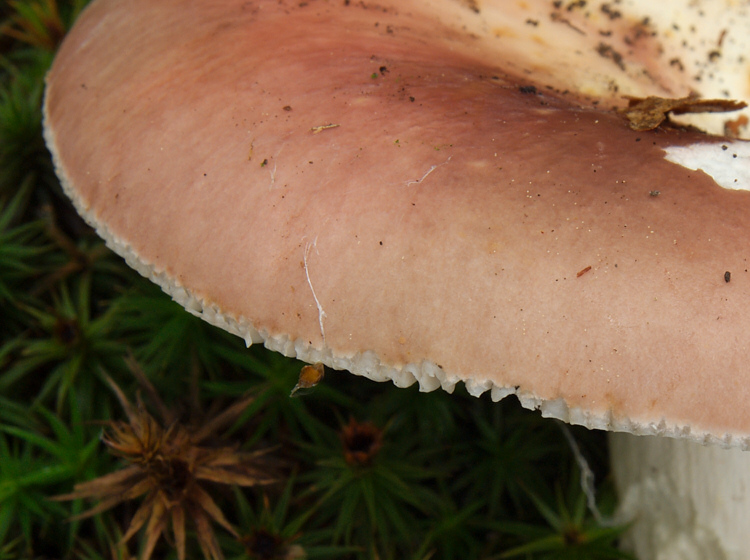 The Flirt (Russula vesca)